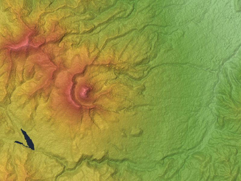 Mount Myōkō is a volcano in Niigata Prefecture, Honshu, Japan.